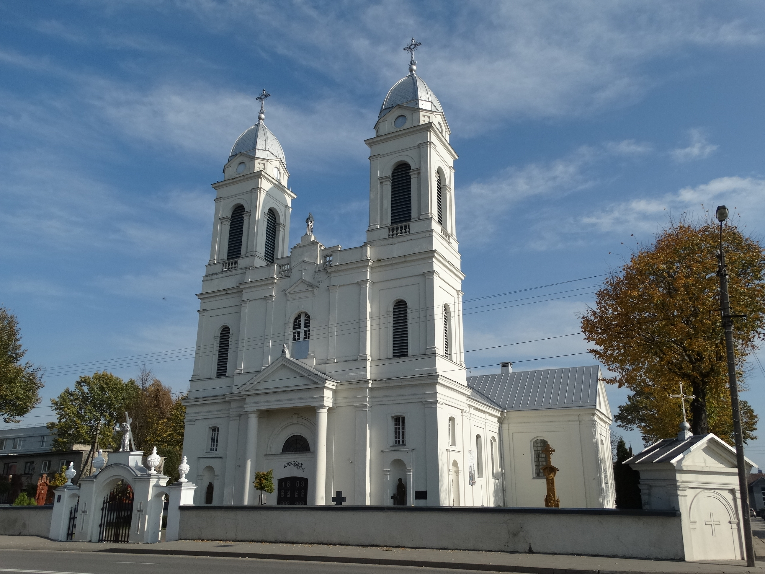 Roman Catholic Church of Saint Trinity, Garliava, Lithuania